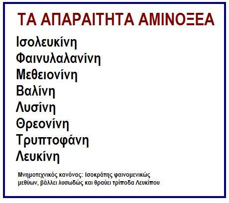 Necessary amino acids